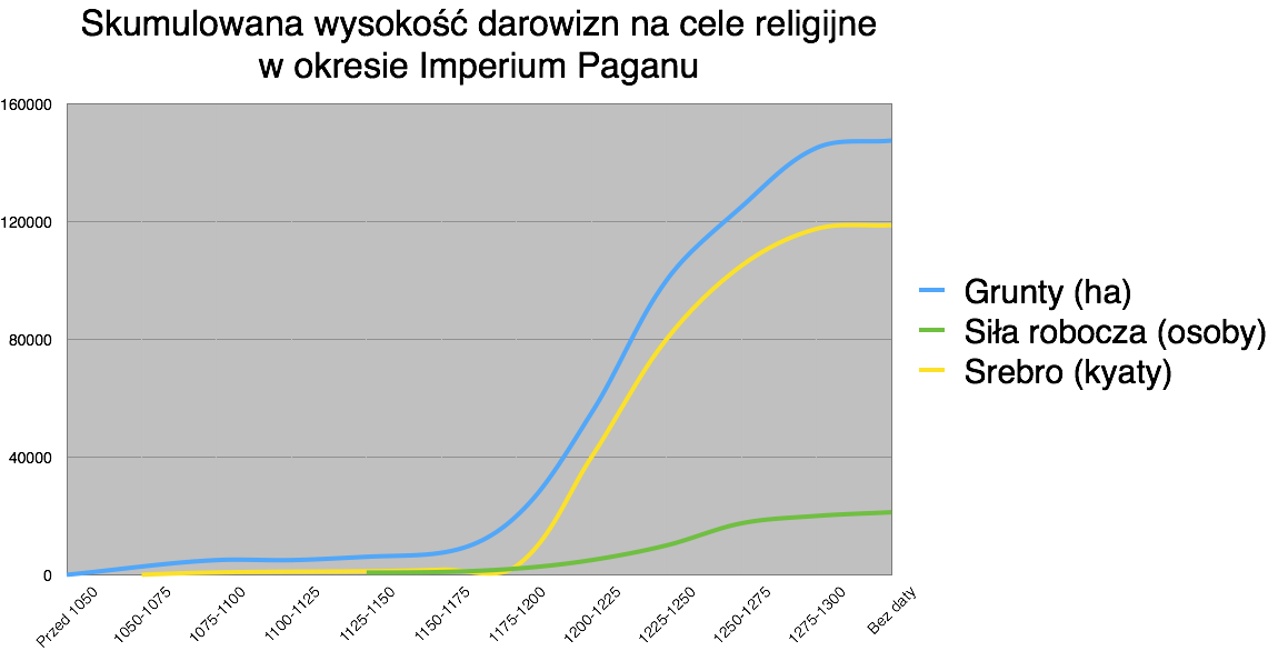 Cumulative Pagan era donations to religious establishments in 25-year periods Based on data source: Pagan: The Origins of Modern Burma, 1985, by Michael Aung-Thwin, p. 187, Table 1: Religious donations to the Sangha; University of Hawaii Press. 1 silver kyat=0.566 oz.